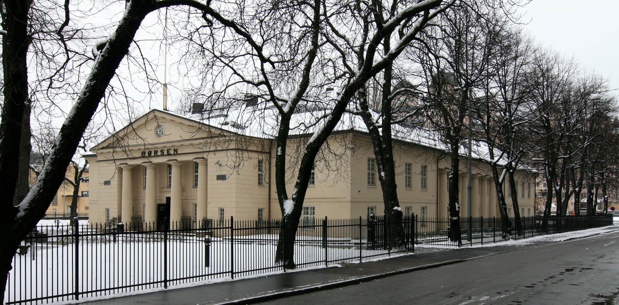 Børsen (The Stock exchange), Tollbugata 2, Oslo. Built 1826-1828. Architect: Christian Grosch. Geatly developed 1910. Architect: Carl Michaelsen.